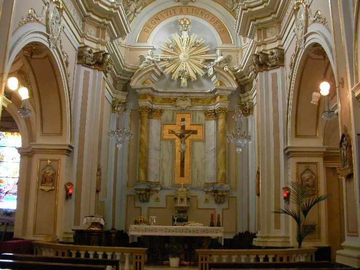 The inside of the church of Santa Croce to Atessa